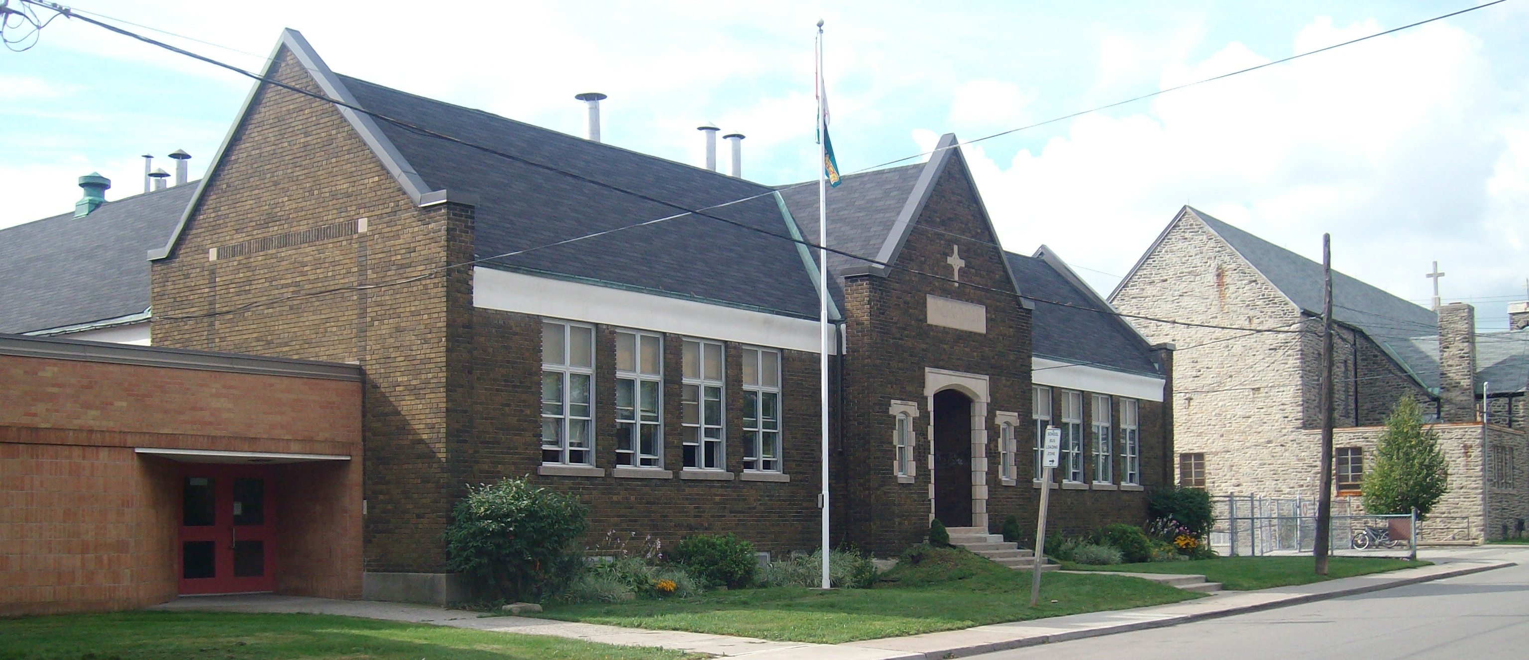 St. Leo 1926 Catholic Elementary School on Stanley (formerly Pidgeon) Avenue, Mimico